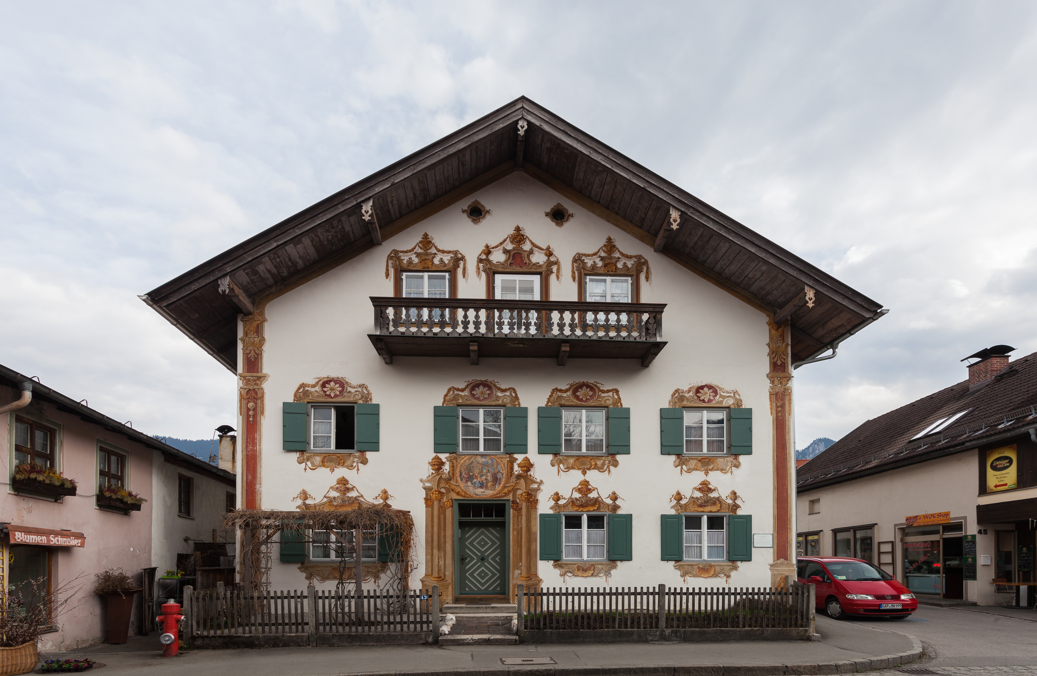 "Hochenleitter" House in Oberammergau, Bavaria, Germany